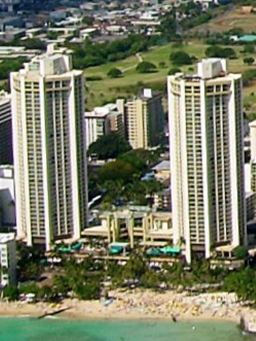 Two towers of Hyatt Regency Waikiki, Honolulu, Hawaii